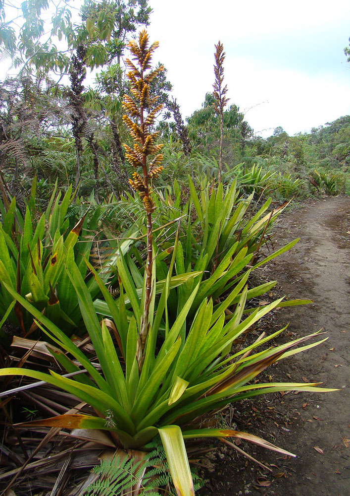 A large, but aging specimen at El Dorado Lodge in northeastern Colombia. Native to the mountains of Colombia and Ecuador. In context at